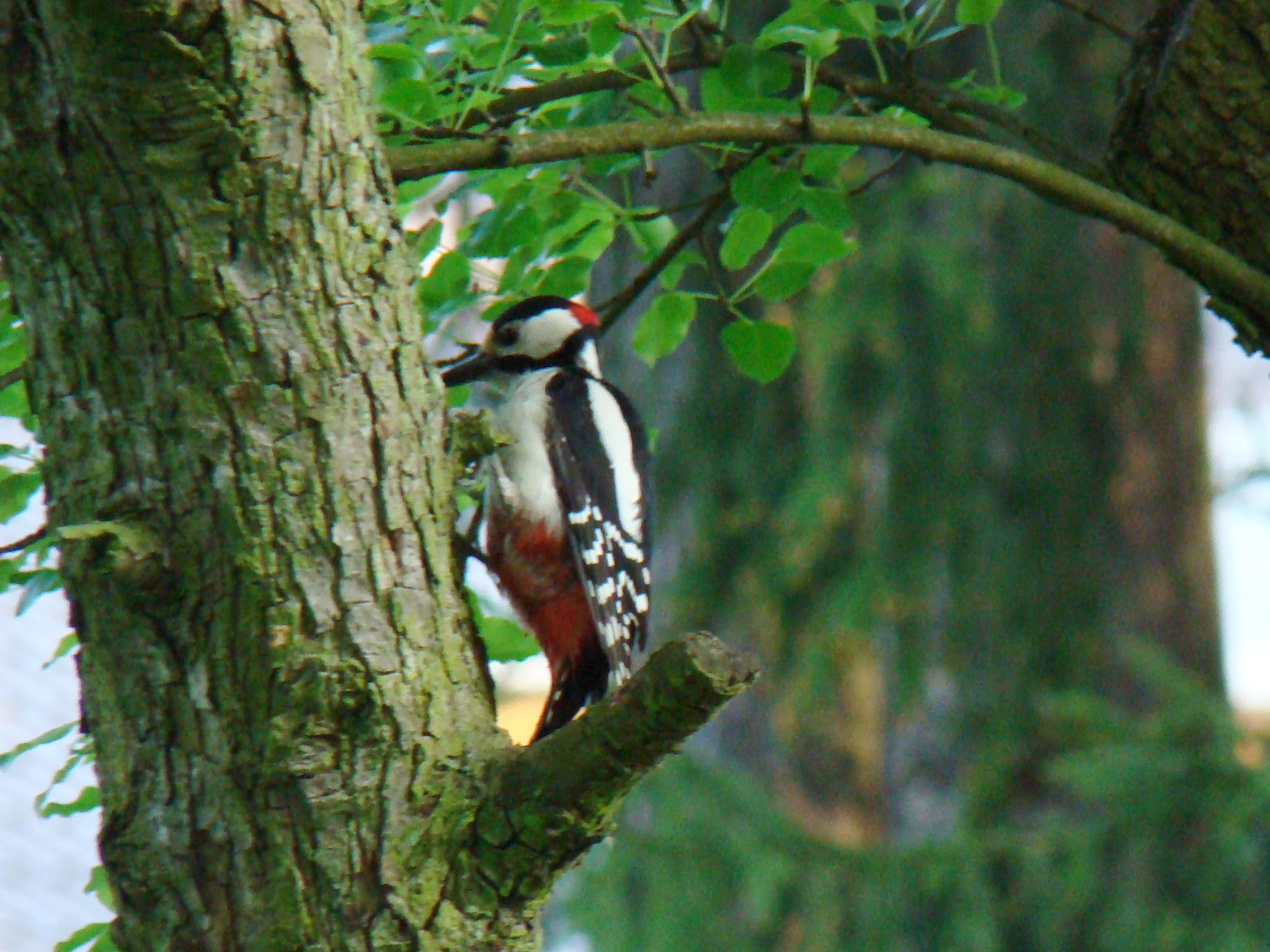 Photo of the Great Spotted Woodpecker (Dendrocopos major) in in Vingis park, Vilnius, Lithuania.